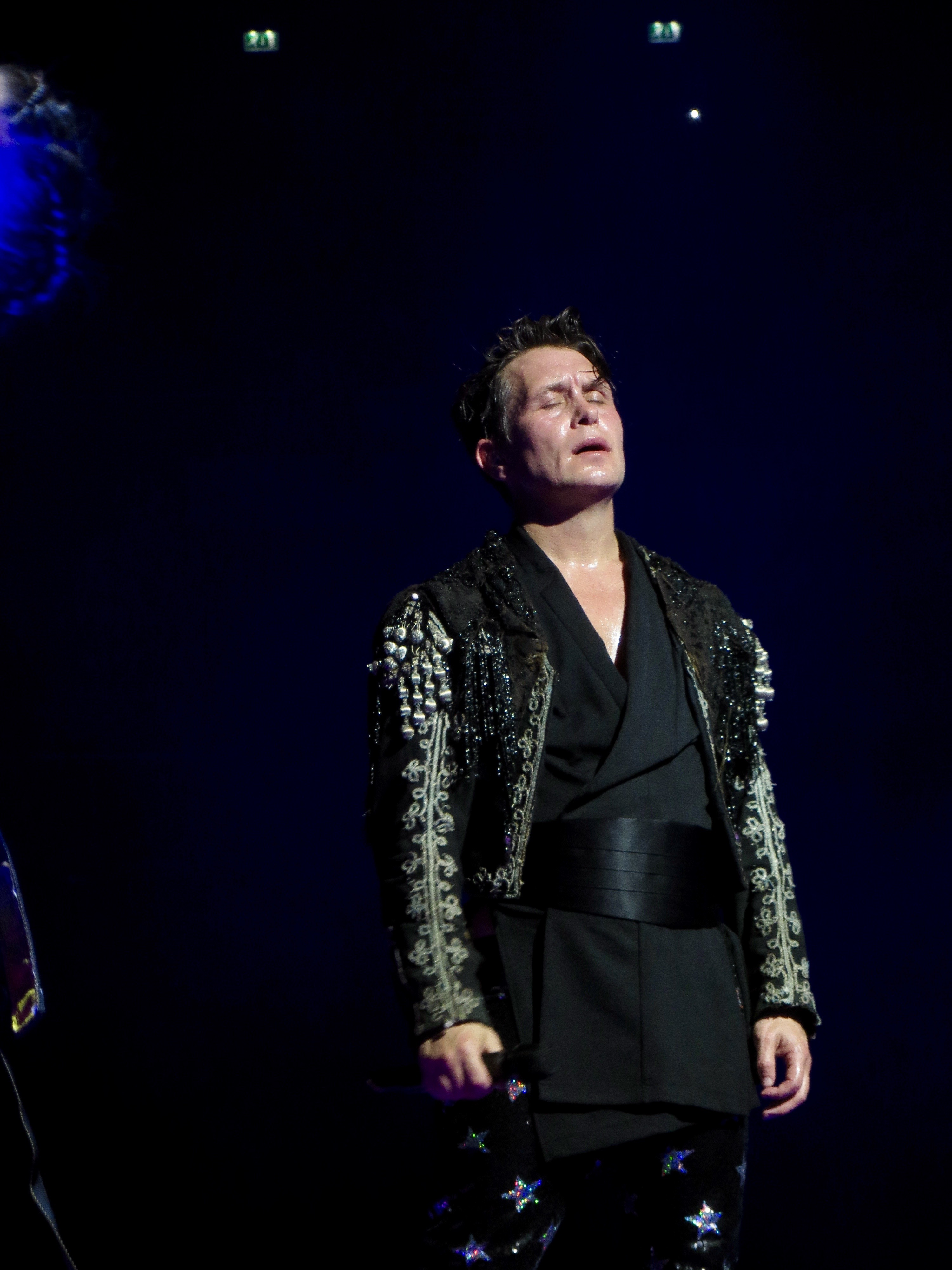 Mark Owen performing at the SSE Hydro in Glasgow during their Wonderland Live tour in 2017